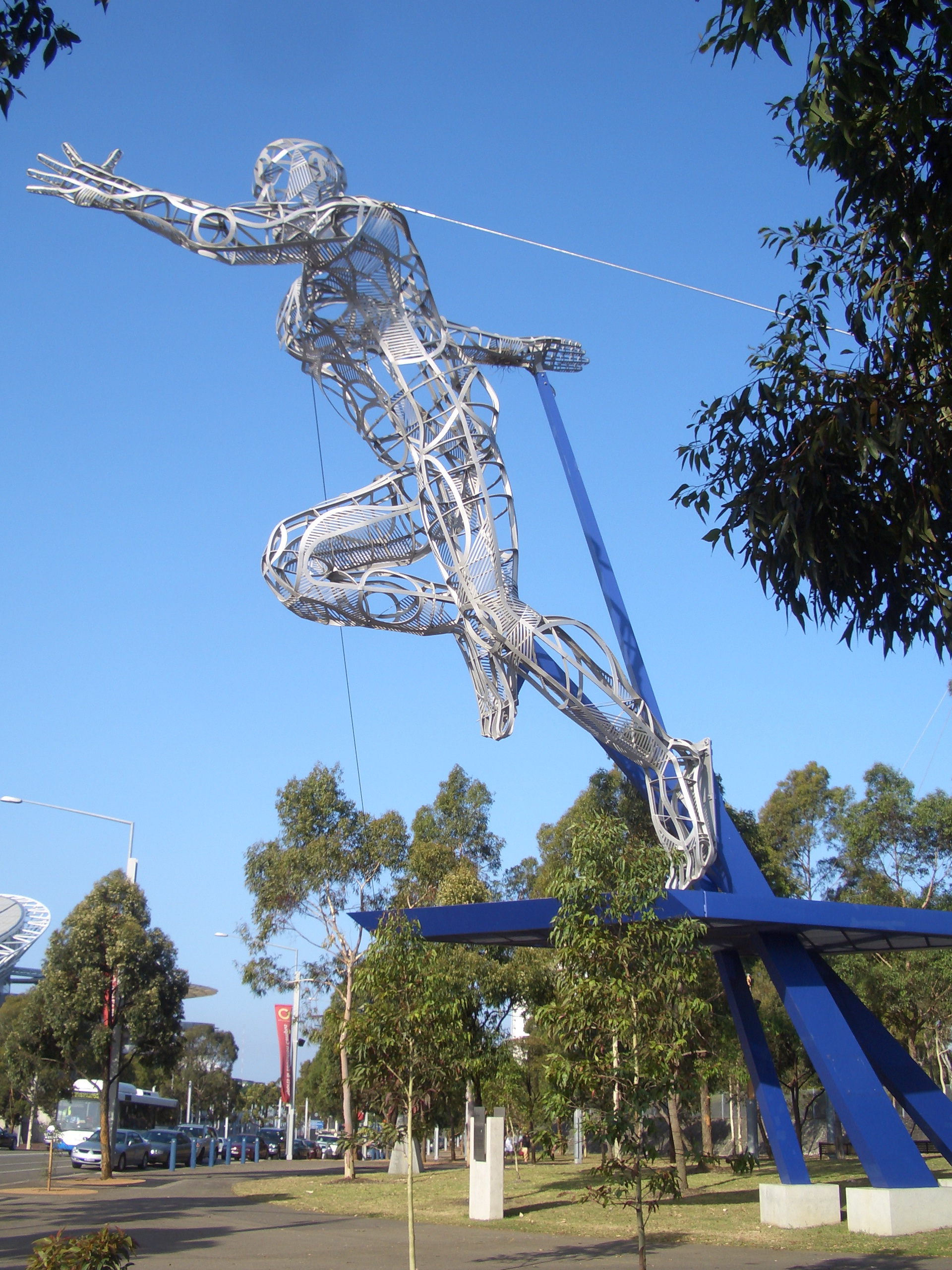 Sydney Olympic Park, Sculpture Sprinter (1998) by Domonique Sutton in Sydney/Australia